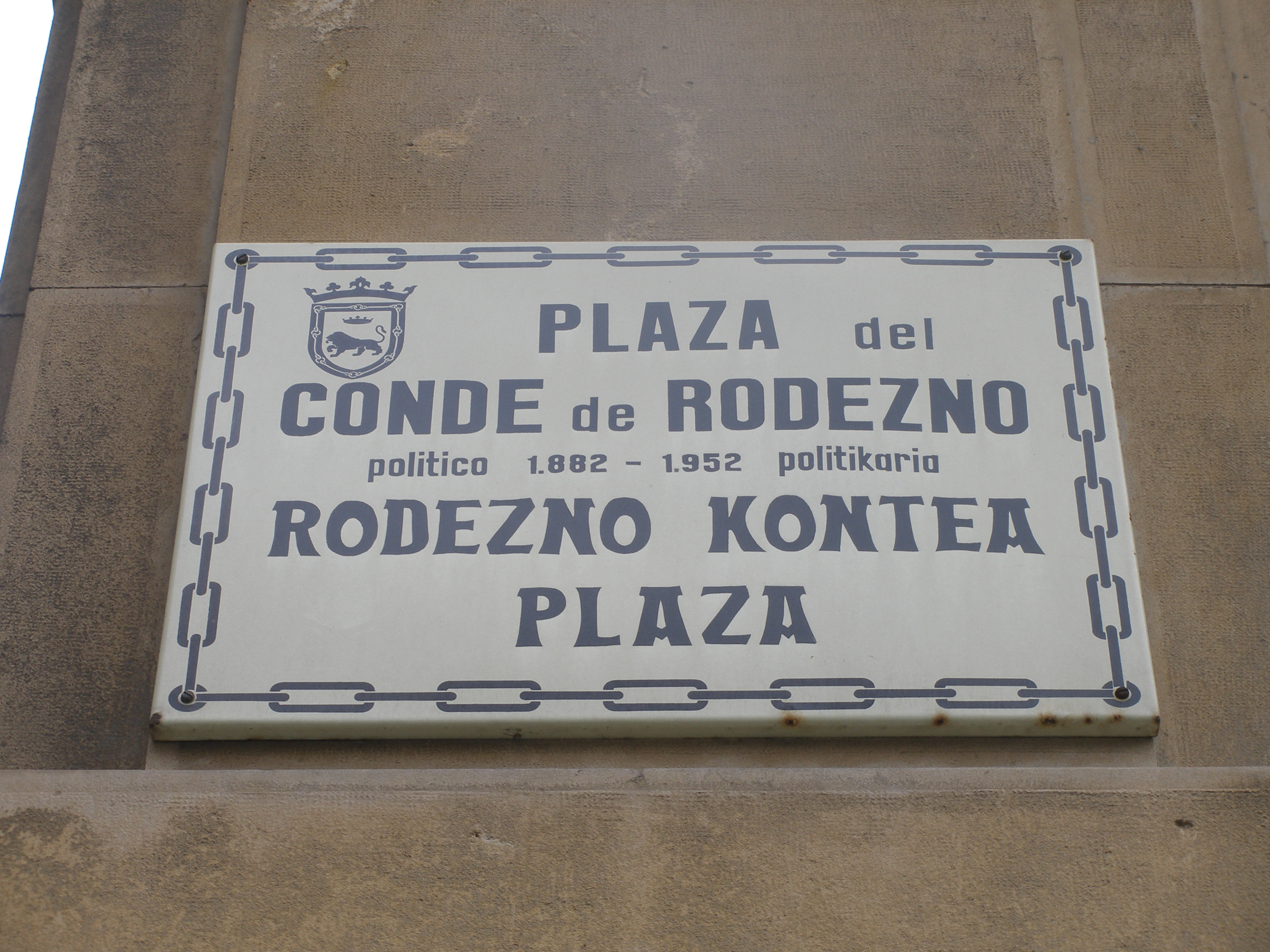 Conde de Rodezno´s scuare placard